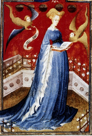 Maria d'Harcourt et d'Aumale, wife of Reinald IV, Duke of Guelders and Jülich, in a houppelande, fol 19 of the Breviary of Marie de Gueldres